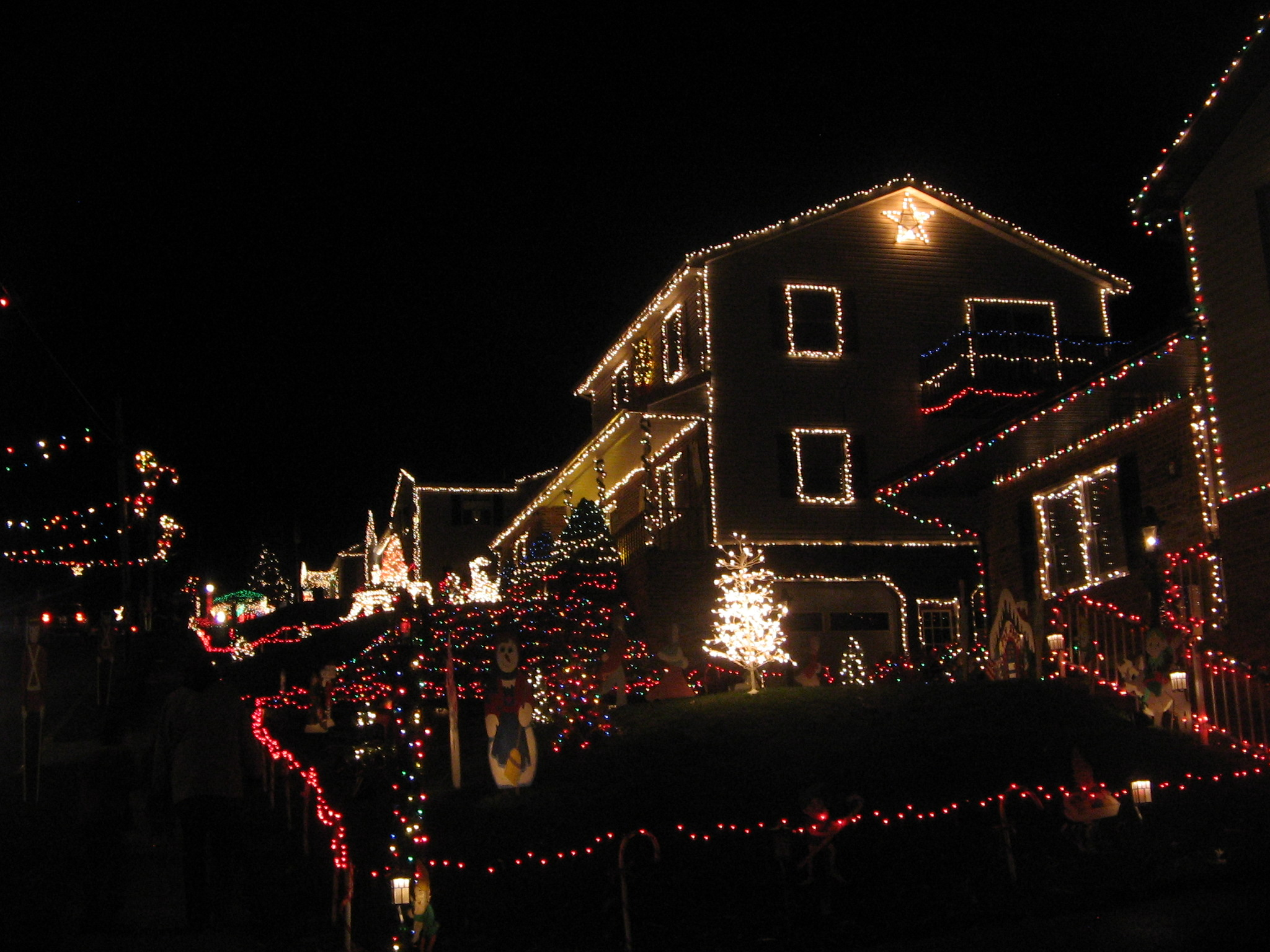 View from the bottom of Candy Cane Lane (Summer Street) in Duboistown, Lycoming County, Pennsvlvania, USA.